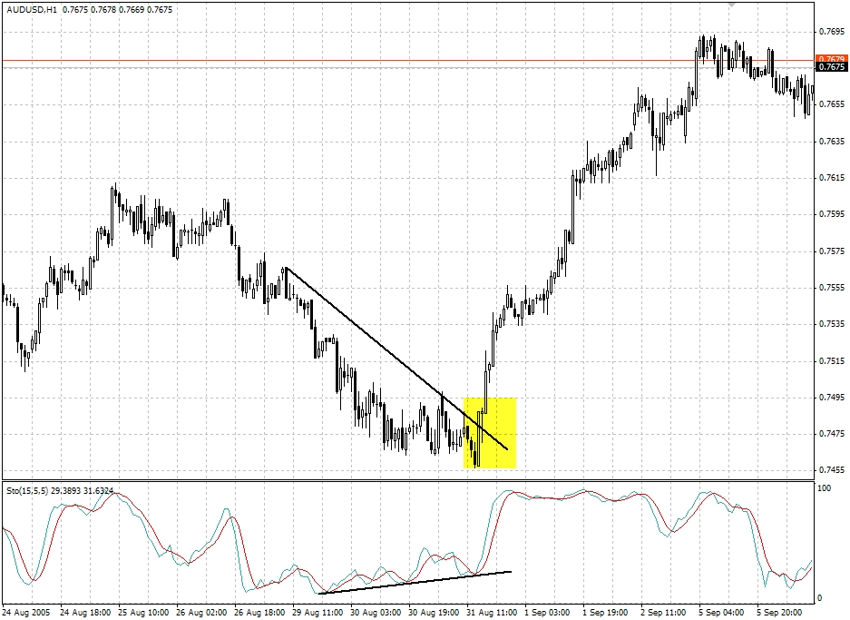 Divergence between the stochastic oscillator and price